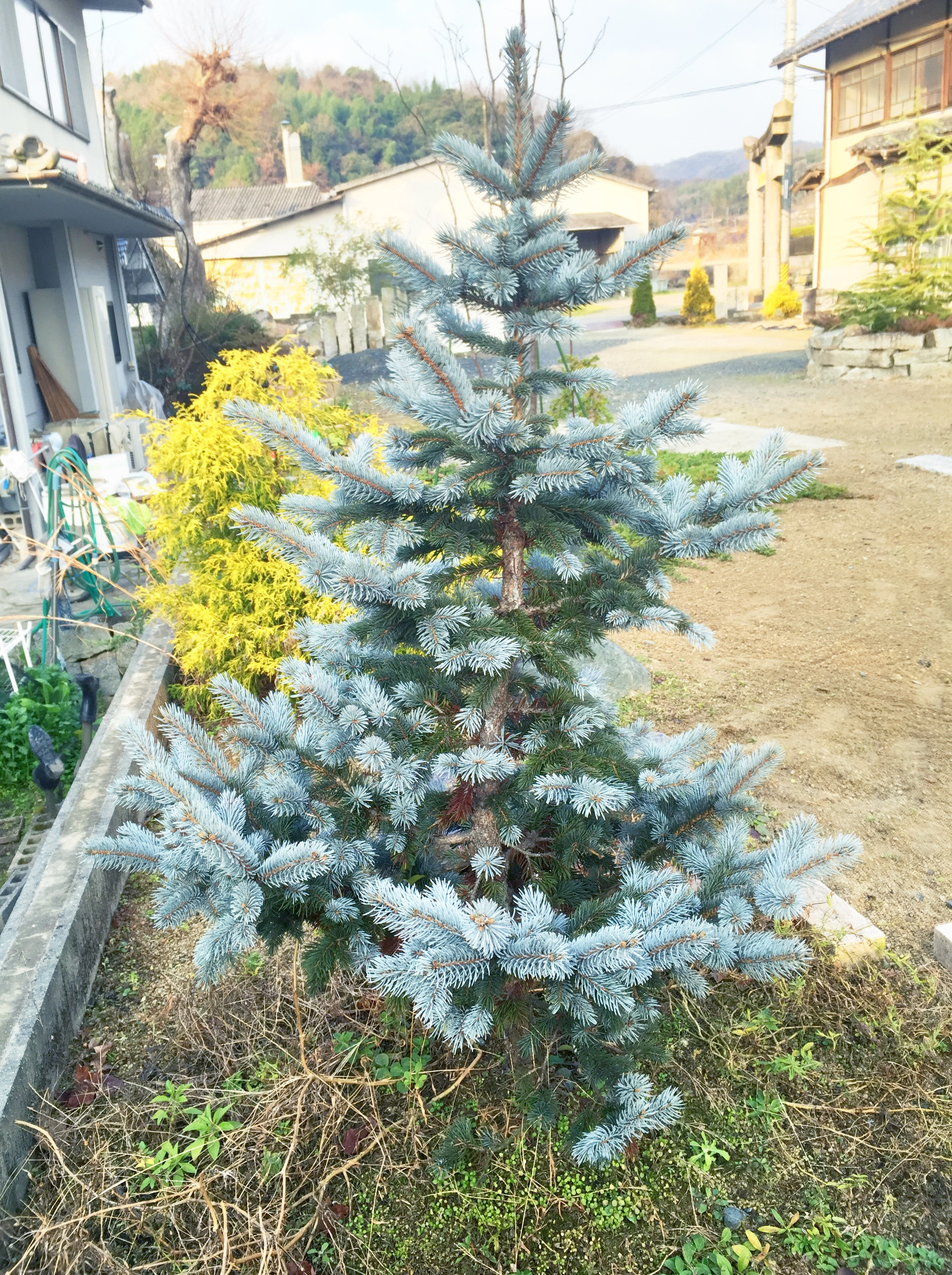 Picea pungens"Hoopsii" and filifera_aurea.（hiroshima-JAPAN)